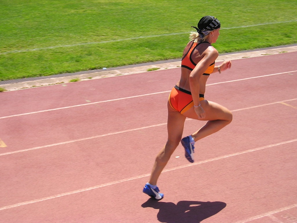 Annemarie Kramer in action during a training camp near Club La Santa at Lanzarote in 2005.